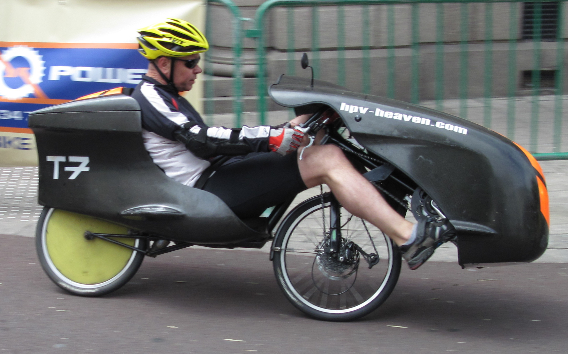 Jersey Town Criterium recumbent bicycle races, Saint Helier, Jersey - World Human Powered Vehicle Association 2010 World Championship